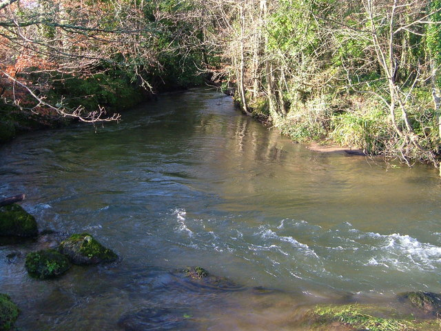 River Yealm near Puslinch, near to Yealmpton, Devon, Great Britain. The Yealm negotiates a sharp bend 100 metres before reaching Puslinch Bridge. The lane from Two Crosses is immediately on the left. Looking downstream.